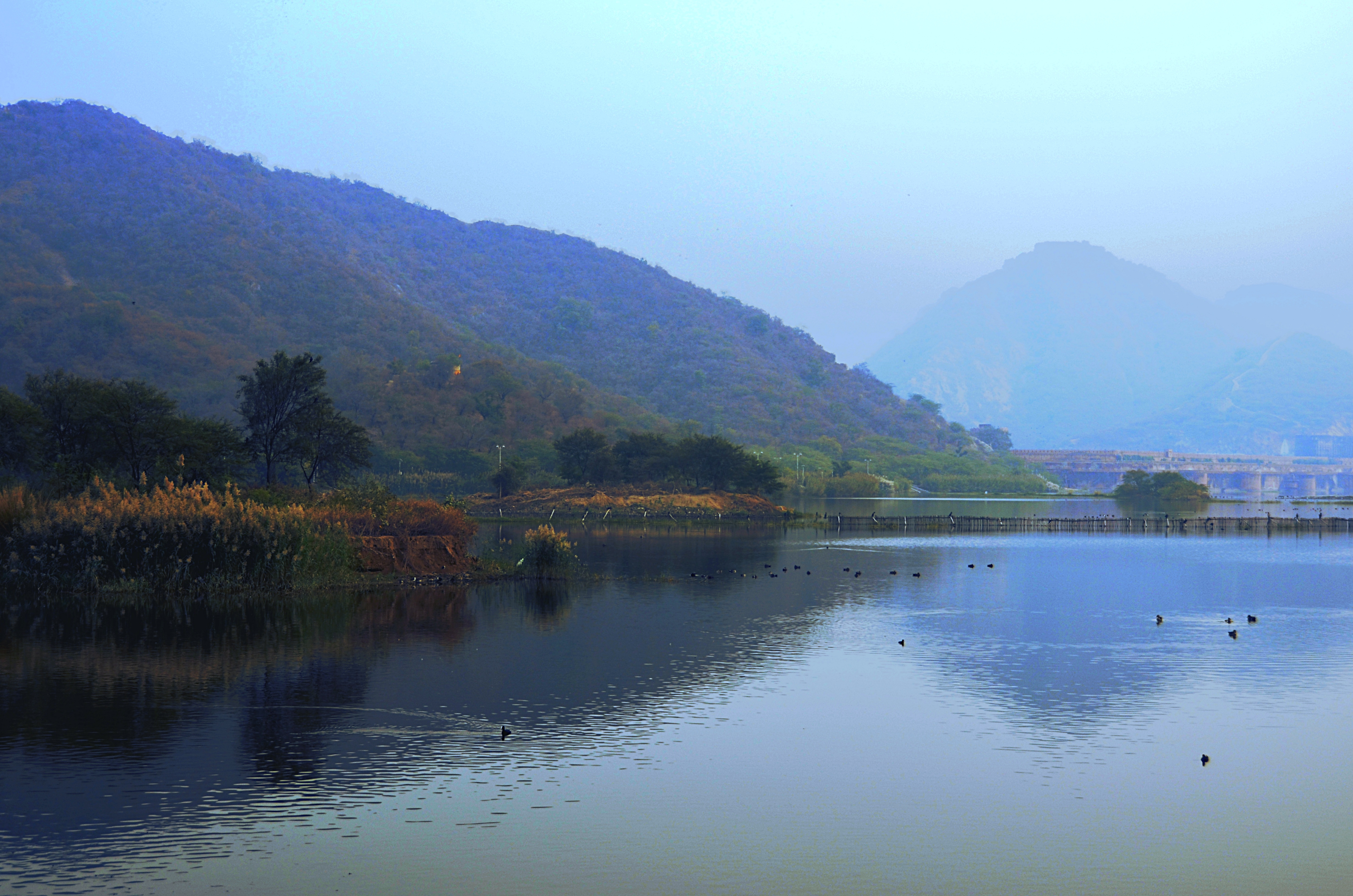 The Mansagar Lake surrounding the Jal Mahal, Jaipur